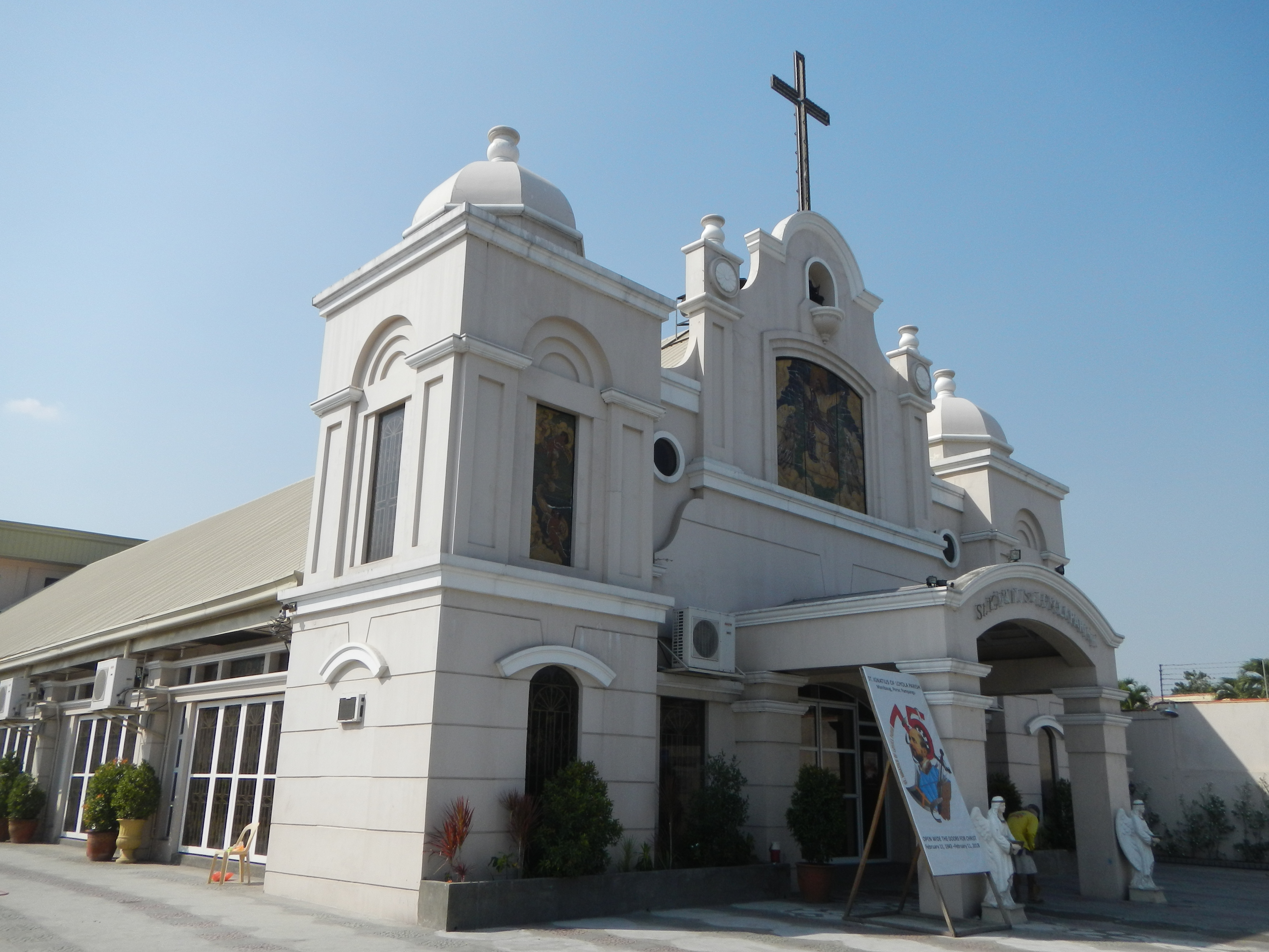 Saint Ignatius of Loyola Parish Church 3—St. Ignatius of Loyola Parish (F-1943) 2008 Pampanga Titular: St. Ignatius of Loyola, July 31 Parish Priest: Rev. Elmer Simbulan Vicariate of Sacred Heart Vicar Forane: Very Rev. Antonio del Rosario - Barangay Manibaug Libutad, Porac, Pampanga.